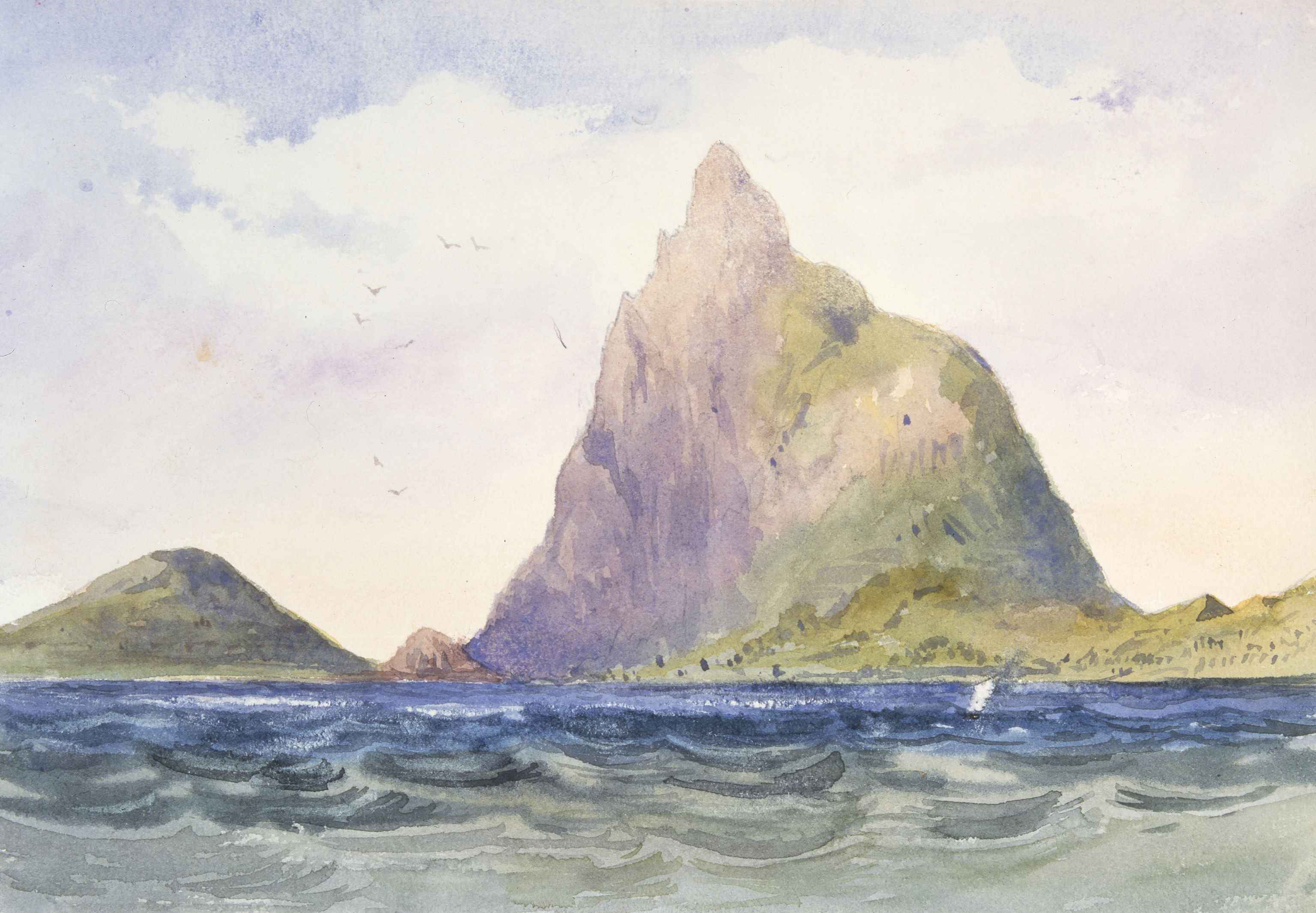 [Fox, William] 1812-1893 :Opara Jan 1868. Reference Number: WC-091. Shows a great rock near the shore, and a small boat with sail. Locality unknown, but possibly Tahiti.